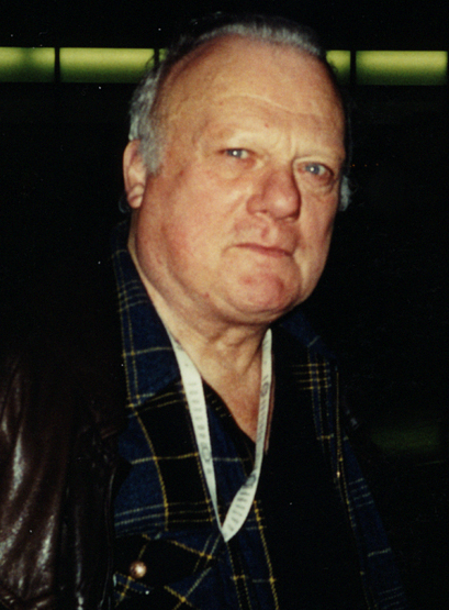 Philippe Nahon, Porto, Mars 1999